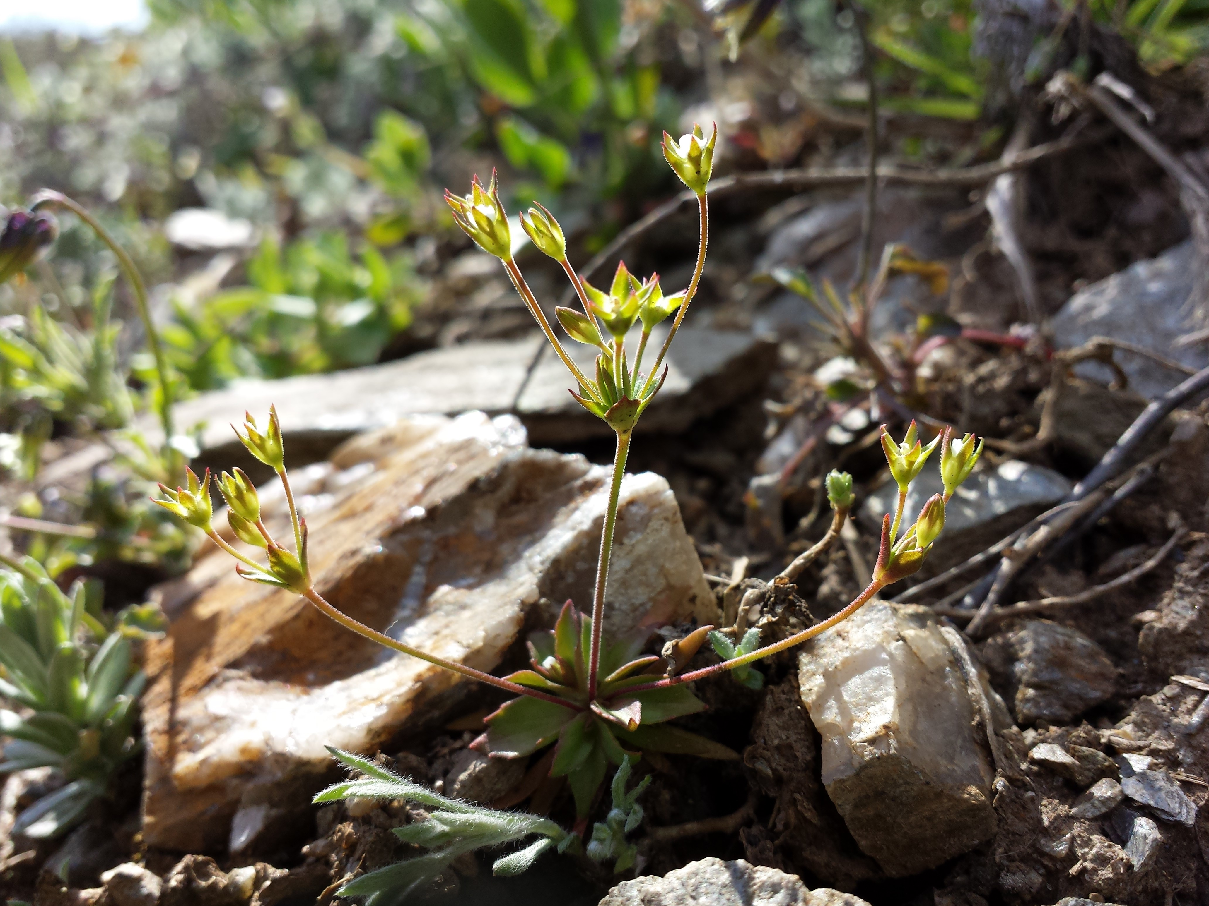 Habitus Taxonym: Androsace elongata ss Fischer et al. EfÖLS 2008 ISBN 978-3-85474-187-9 Location: Jungerberg, Jois, district Neusiedl am See, Burgenland, Austria - ca. 200 m a.s.l. Habitat: rock steppe / border of a shrubbery